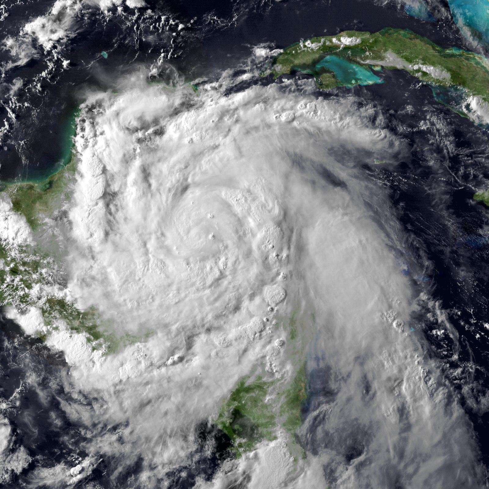 Satellite image of Hurricane Earl approaching Belize on August 3, 2016.